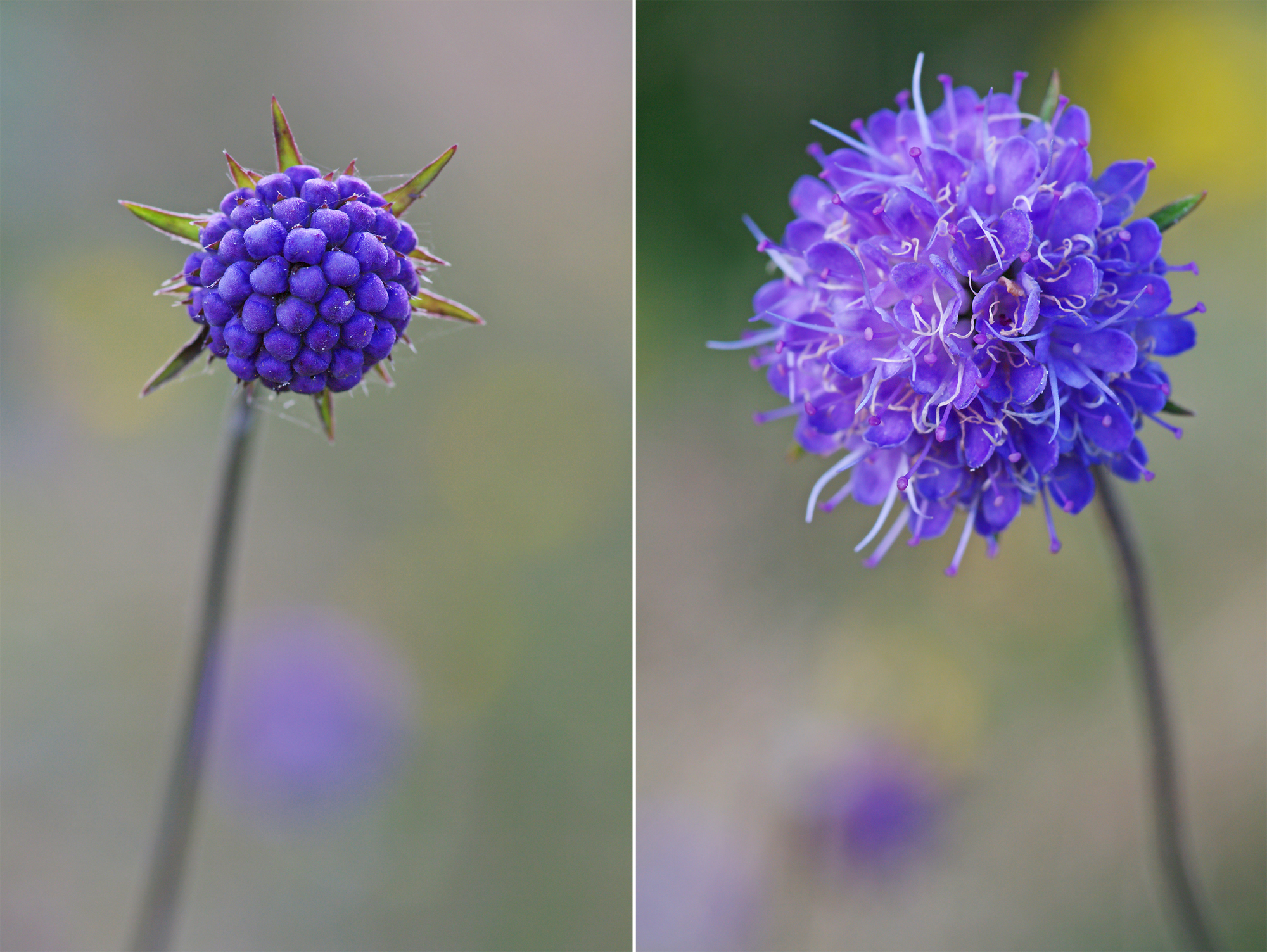 Flowering Devil's-bit Scabious, Succisa pratensis – left with closed blossoms, right opened inflorescence.